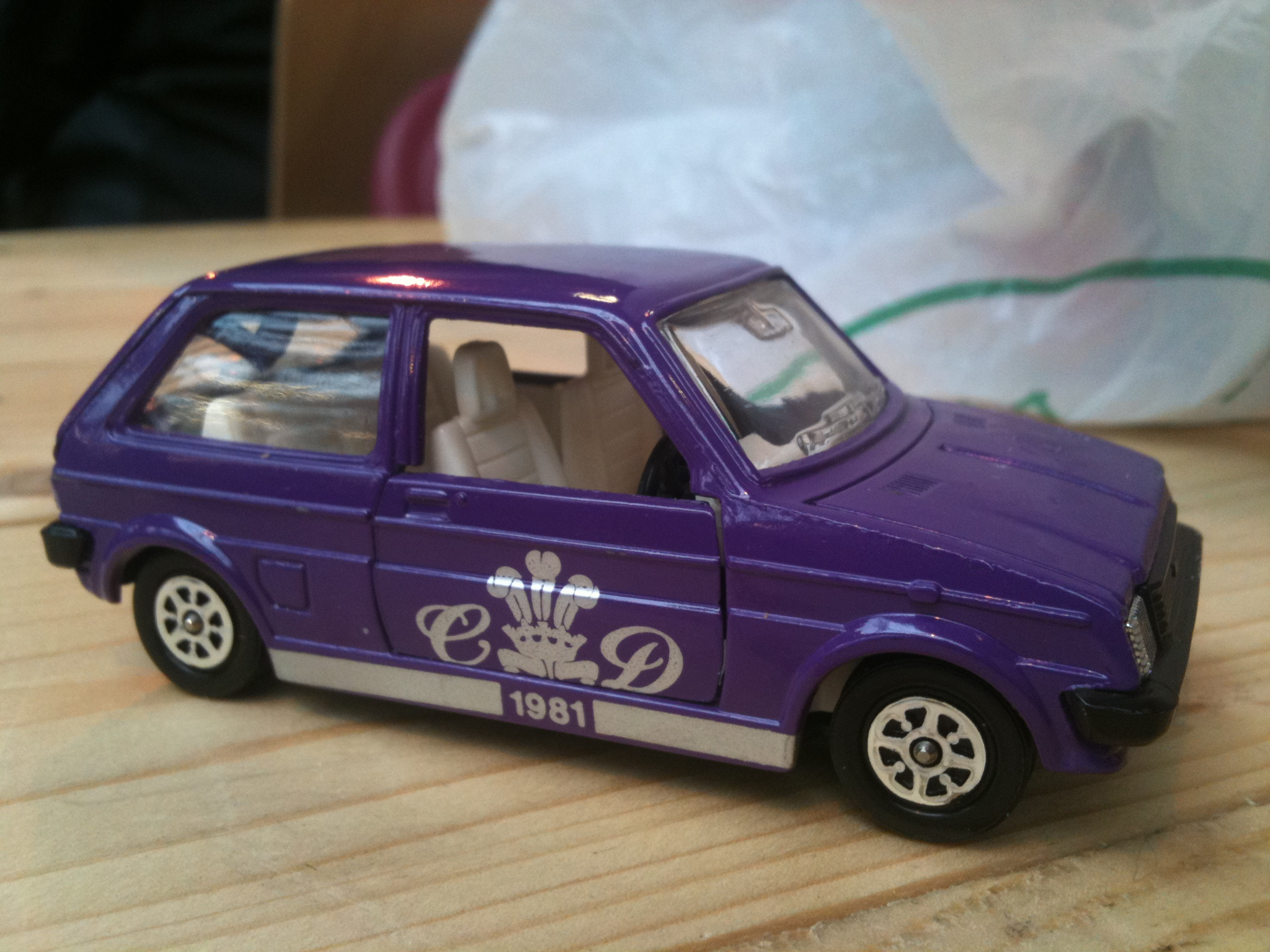 Austin Metro toy car produced in 1981 by Corgi Toys commemorating the Royal Wedding of Prince Charles and Lady Diana Spencer